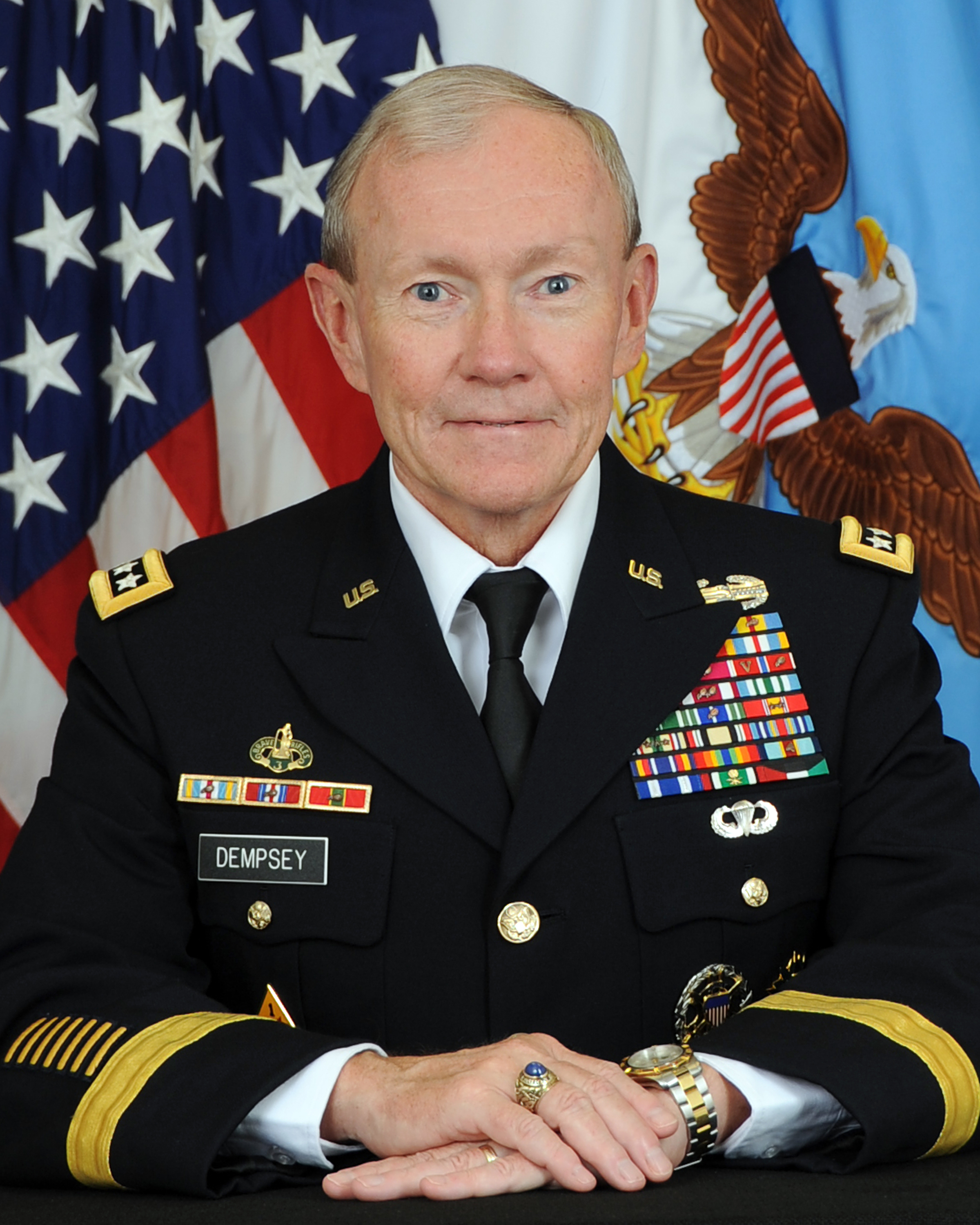 General Martin E. Dempsey, USA, 18thChairman of the Joint Chiefs of Staff.